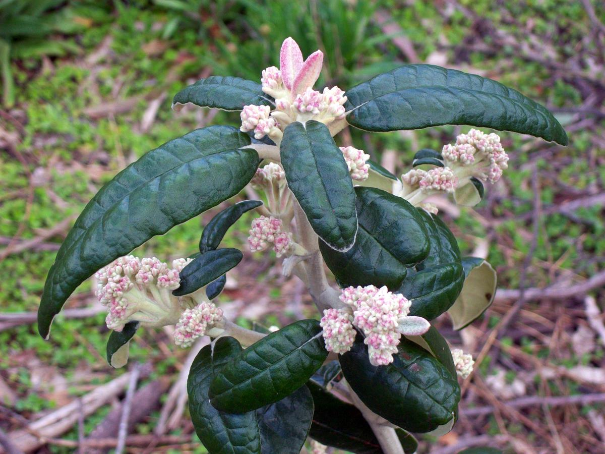 Olearia covenyi at Mount Tomah Botanic Gardens, Australia